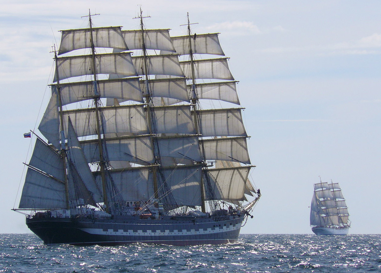 «Крузенштерн» (Kruzenshtern), ex Padua (The bark in the background is naturally not the - fully-rigged - Christian Radich, but probably Statsraad Lehmkuhl.)